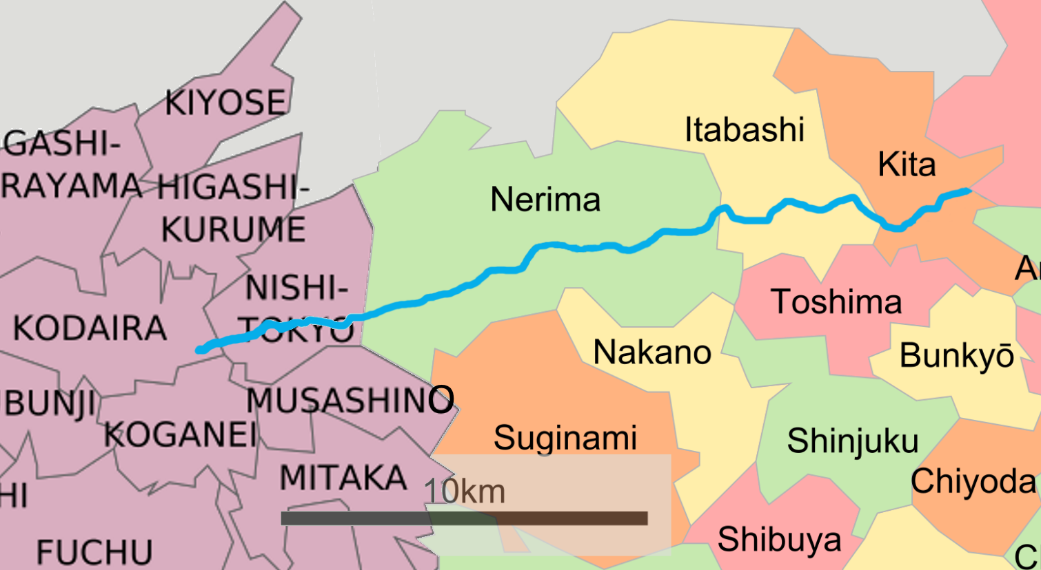 Flow of Shakujii River, Japan. Own work based onː File:Tokyo_special_wards_map.svg File:Tokyo_Metropolis_Map-nocap.svg Noteː The course of the river on this map is not highly accurate and should only be used as an approximate guide.